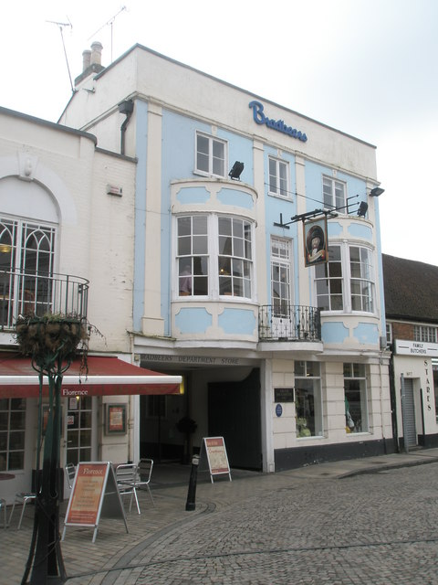 Bradbeers in Romsey town centre